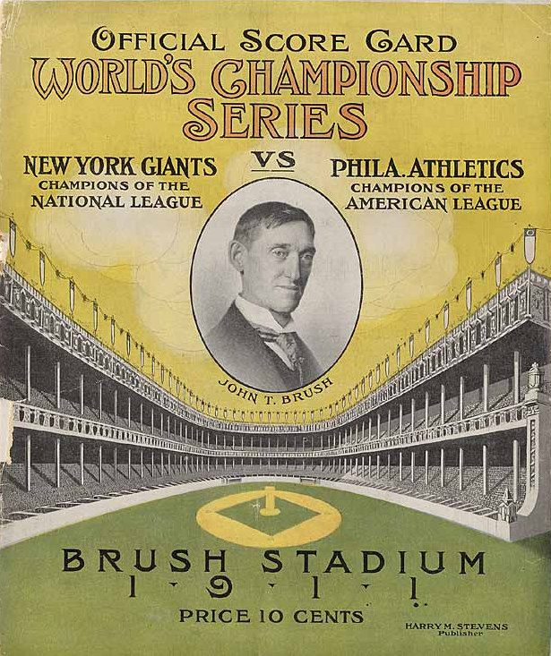 A program from the 1911 World Series.